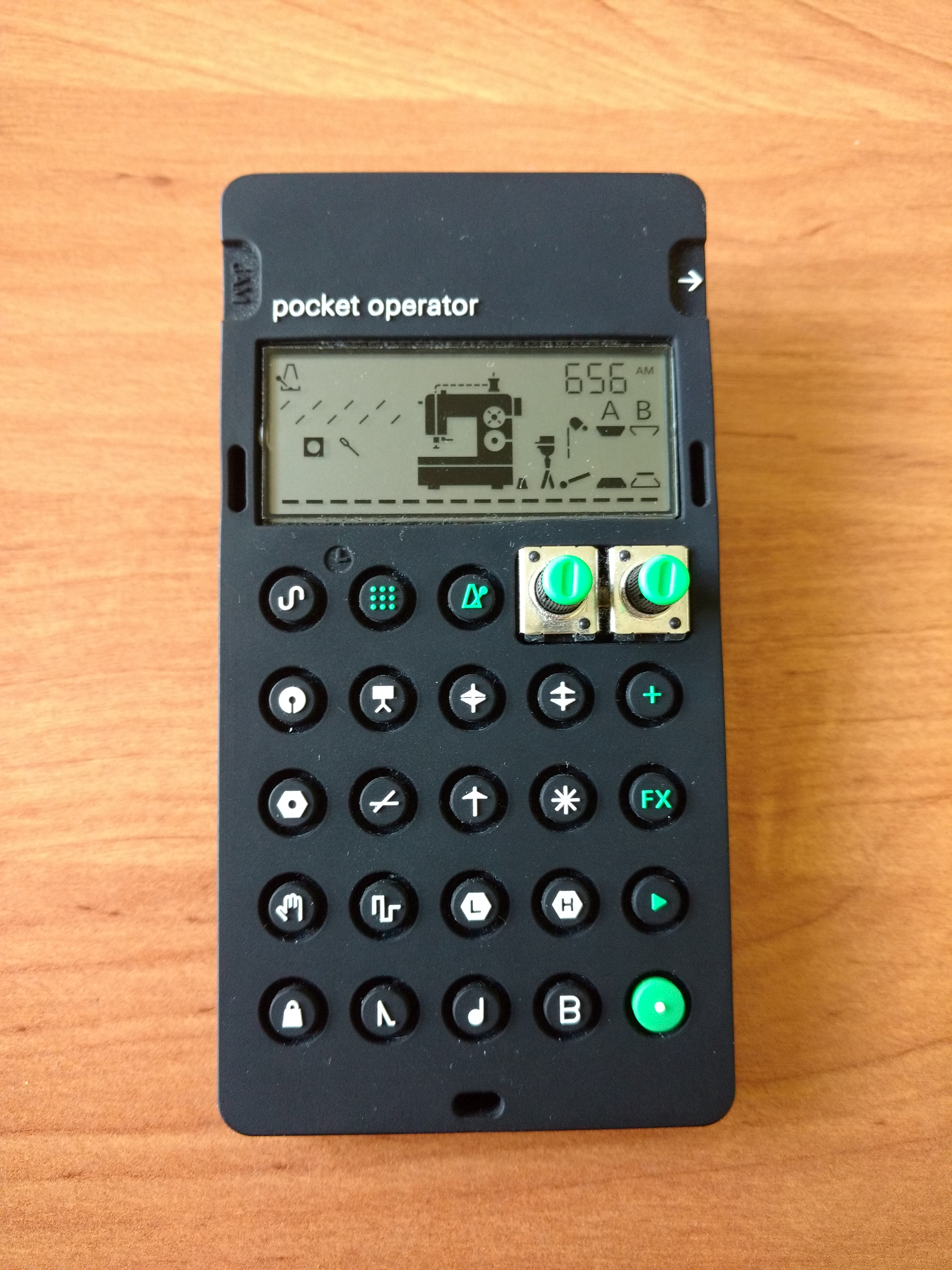 Teenage Engineering pocket operator in CA-12 case